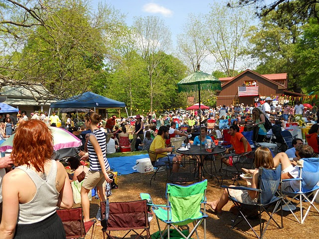 This is a photo of the crowd at the 10th annual Old 280 Boogie Festival in Waverly Alabama